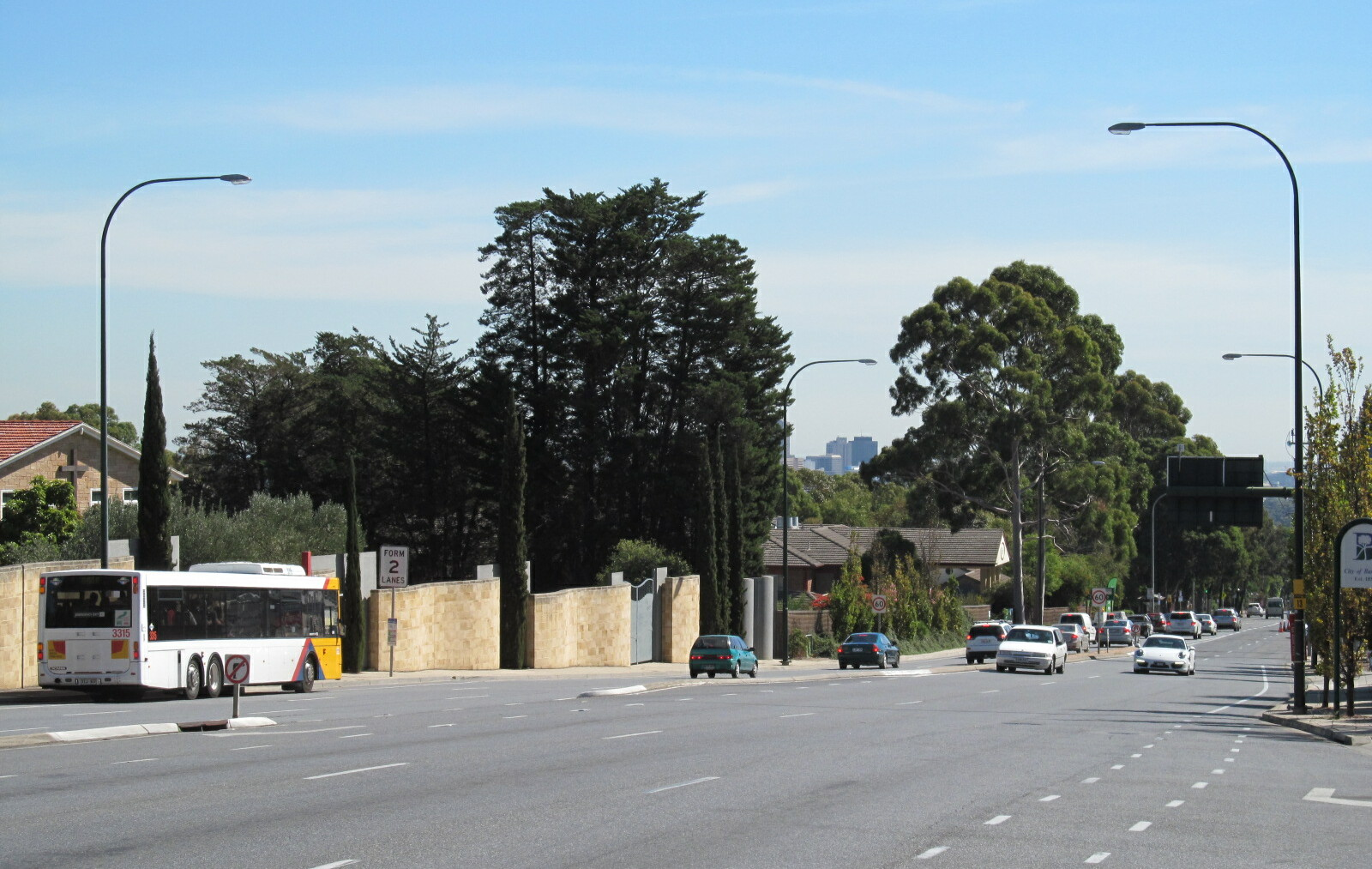 The start of Glen Osmond Road, Adelaide, looking north-west from the Gateway to Adelaide. An Adelaide Metro bus can be seen on the left, while Adelaide CBD can be seen approximately 5 kilometres (3 miles) in the distance.